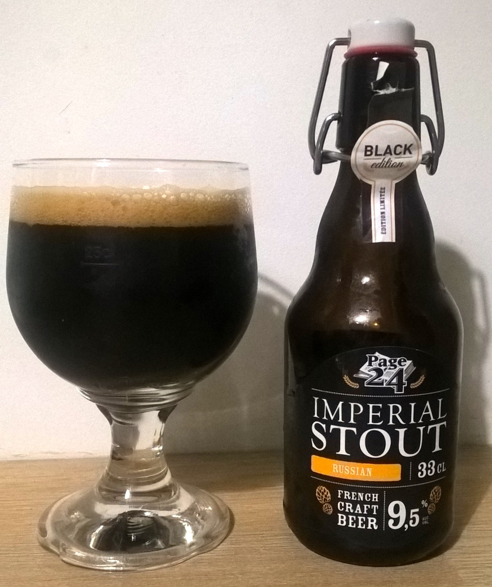 Page 24 Imperial Stout